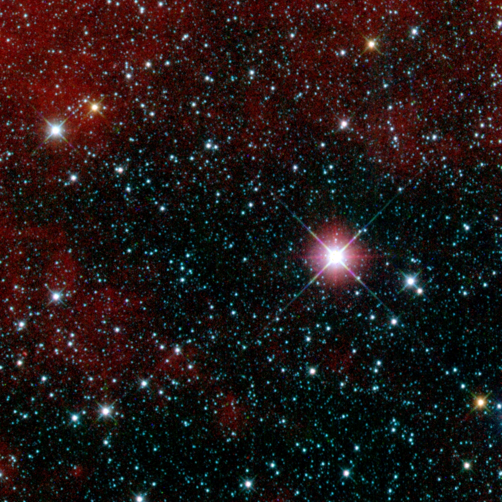 This infrared snapshot of a region in the constellation Carina near the Milky Way was taken shortly after NASA's Wide-field Infrared Survey Explorer (WISE) ejected its cover. The "first-light" picture shows thousands of stars and covers an area three times the size of the moon. WISE will take more than a million similar pictures covering the whole sky. The image was captured as the spacecraft stared in a fixed direction, in order to help calibrate its pointing system. The mission's survey will be done while the satellite continuously scans the sky, and an internal scan mirror counteracts the motion to create freeze-frame images. The team is working now to match the motions of the spacecraft and the scan mirror precisely. This eight-second exposure shows infrared light from three of WISE's four wavelength bands: Blue, green and red correspond to 3.4, 4.6, and 12 microns, respectively.